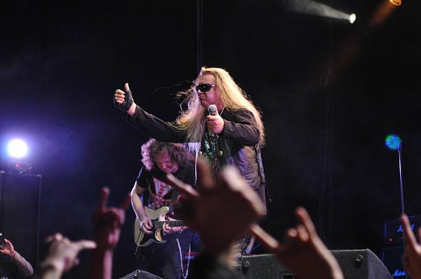 avgust_krock